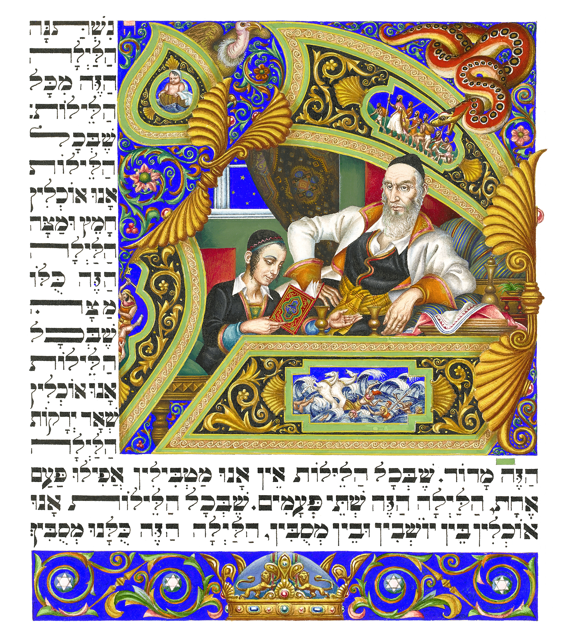 The Four Questions (Ma Nishtanah) from Arthur Szyk's Haggadah, 1935, Łódź, Poland. Szyk (1894-1951) originally intended his Passover story of persecution and deliverance (told through the traditional text of the Haggadah) to be a strong statement against the Nazis, but no publisher in his native Poland dared take on a project with strong anti-Nazi iconography. He ultimately found a publisher in England. This page has the Hebrew text of the Four Questions, with an illustration showing an older bearded man listening as a young boy reads the traditional Four Questions of the Passover Seder (including "Why is this night different from all other nights?"). In the top right corner is a red snake--understood to be Nazism--coiled as if ready to strike. The illustration is framed by a Hebrew letter מ (mem). In the upper left corner there is a small letter ה (he), which completes the word Ma, the first word in the Hebrew text.